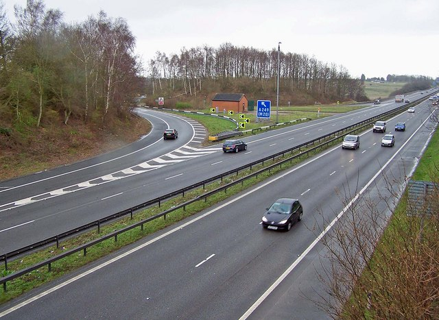 Junction 5 on the M2 motorway. Looking east from the footbridge in 733403, the exit on the left is for Sittingbourne and Sheerness.